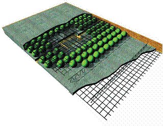 Biaxial Deck